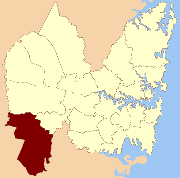 Location of the Australian House of Representatives Division within Sydney in New South Wales, as it existed at the 2004 election.